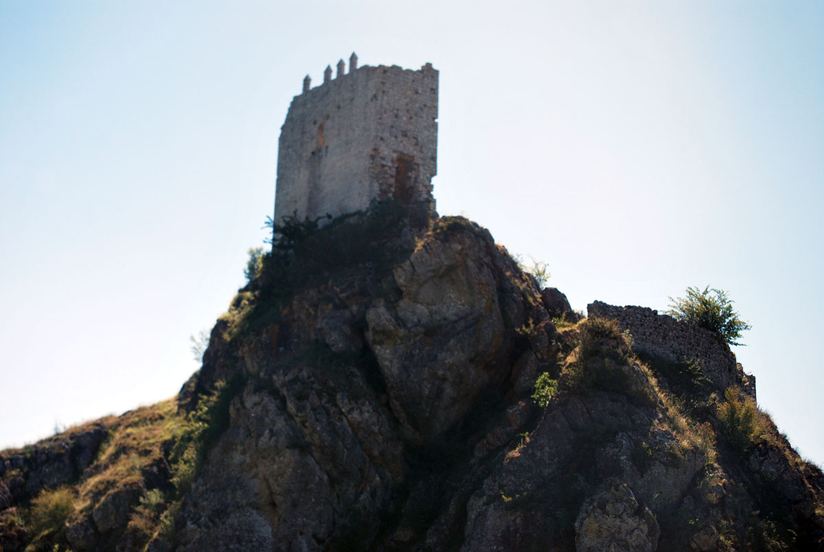 Castle of Úrbel del Castillo (Burgos, Spain) from the West.